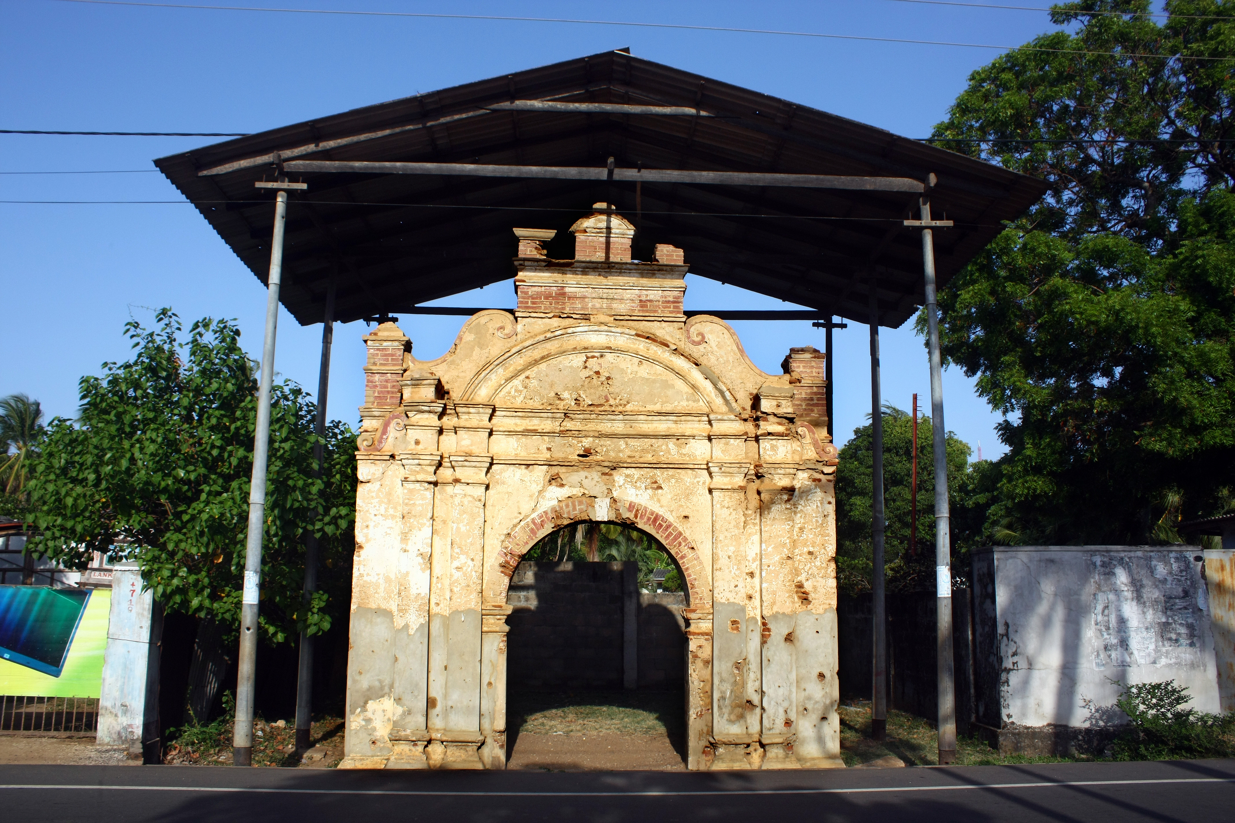 Cankili Thopu, Facade of the palace